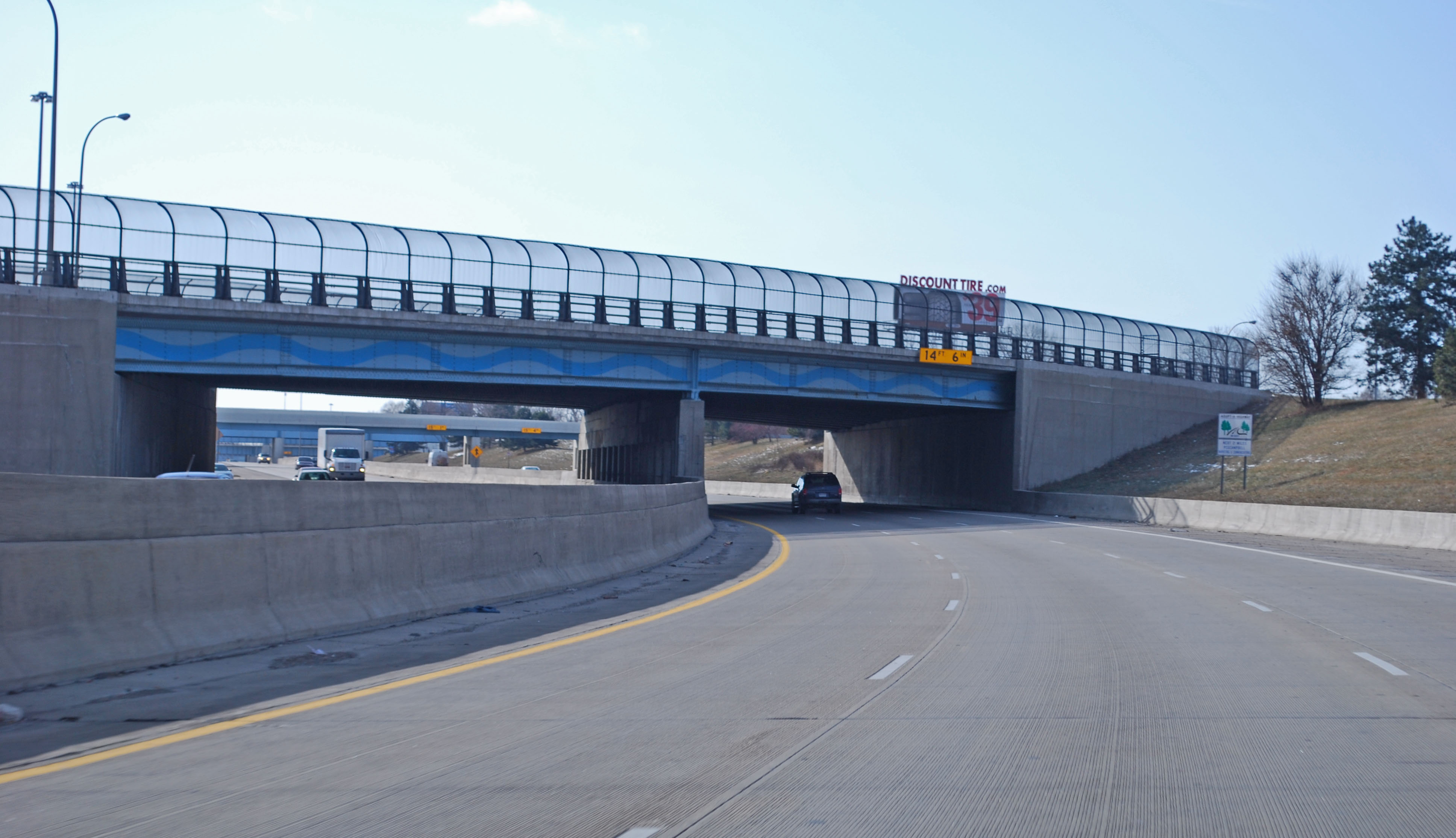 US12 bridge over I94